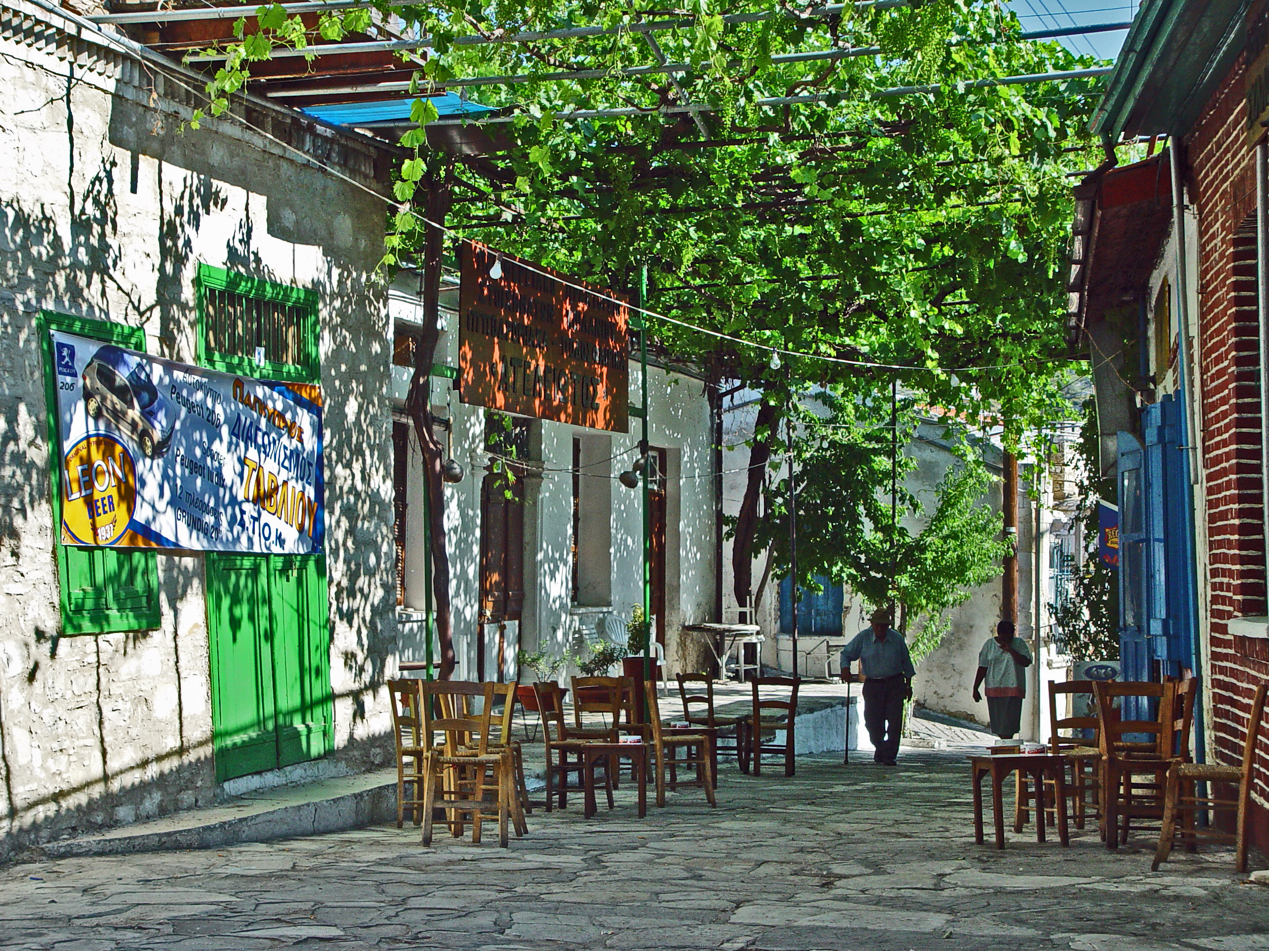 Alley in centre of Koilani village (Cyprus)